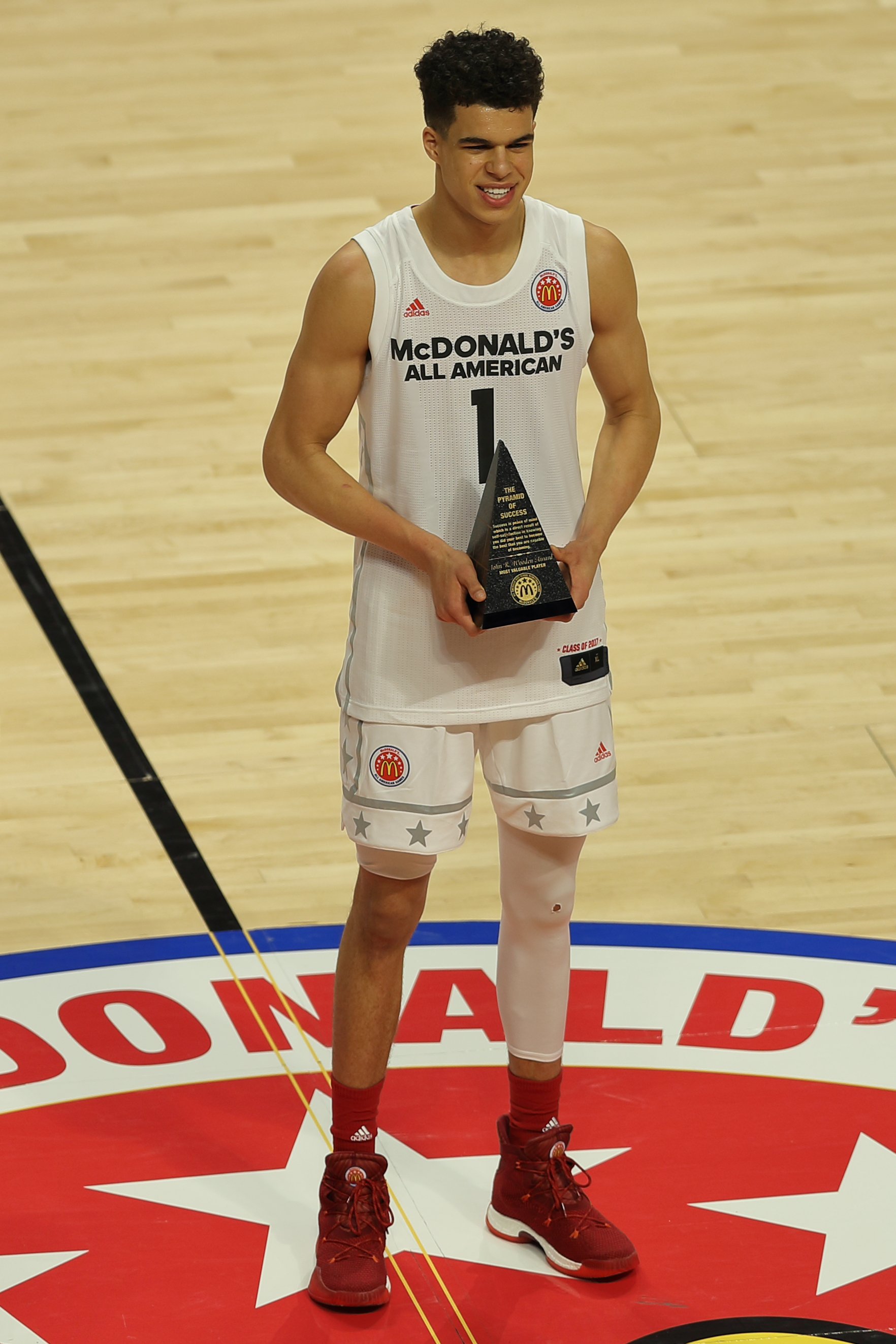 Michael Porter Jr. receiving the w:2017 McDonald's All-American Boys Game MVP award at the United Center